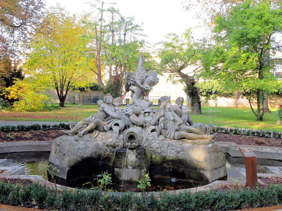 Hospital "Juliusspital" in Würzburg, Font "Greifenbrunnen" in the Park